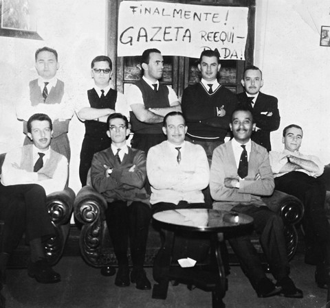 Nacim Bacila Neto's portrait.